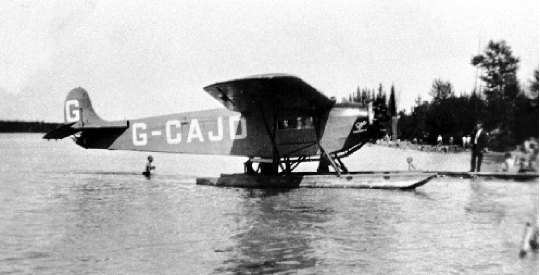 Ghost of Charron Lake